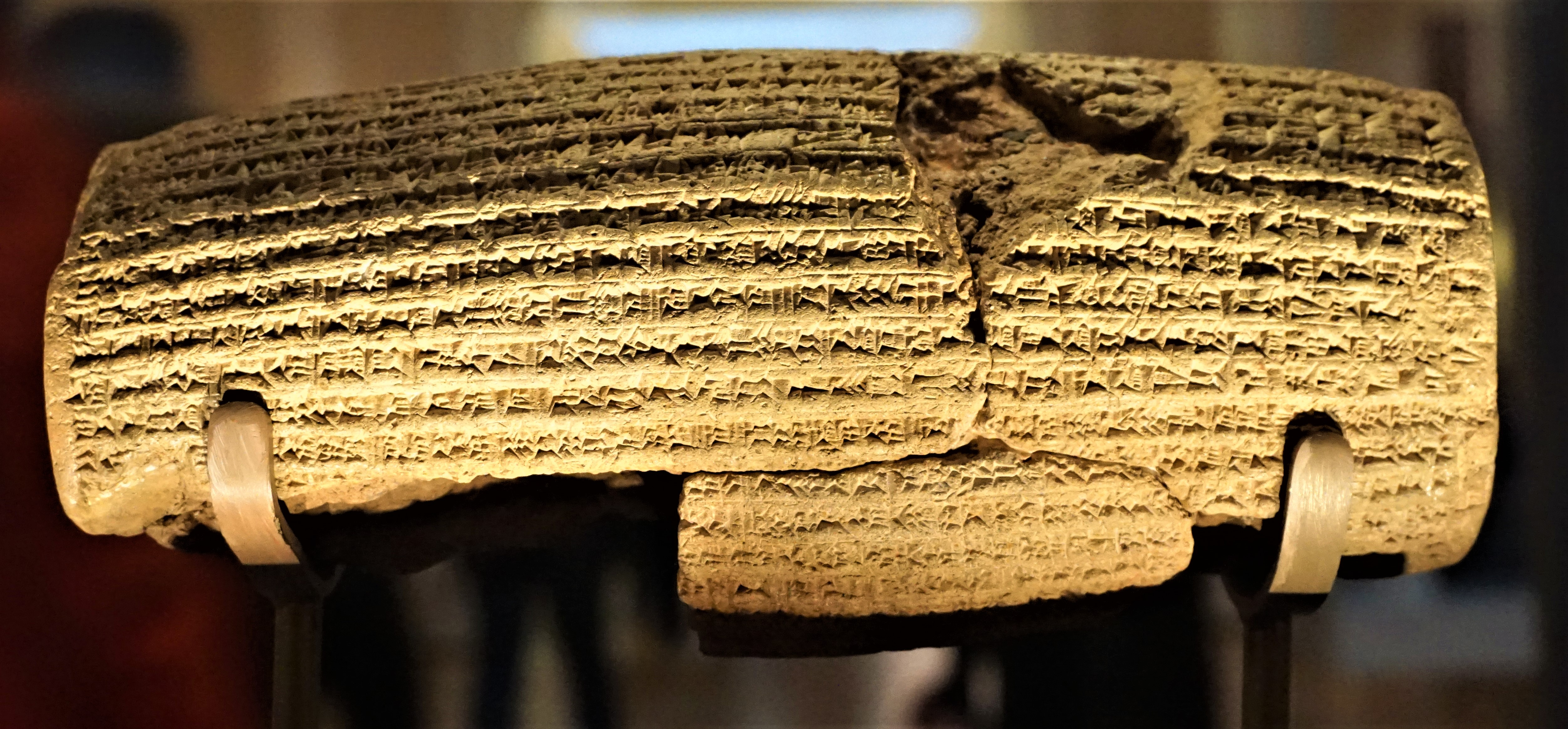 Cyrus Cylinder - British Museum - Joy of Museums - for details